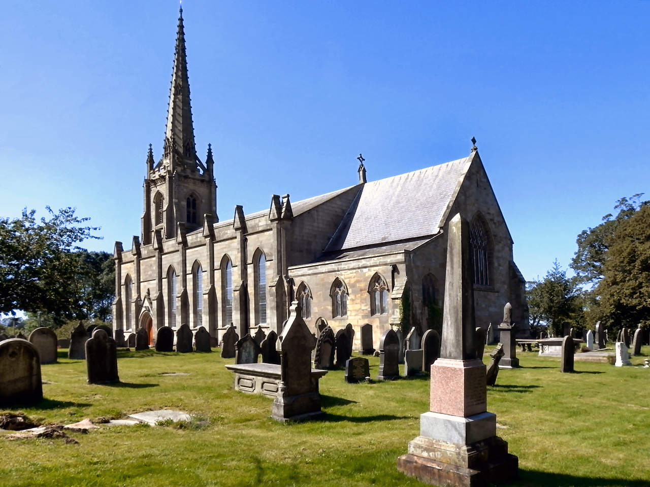 Photograph of Kirkham Parish Church, Lancashire